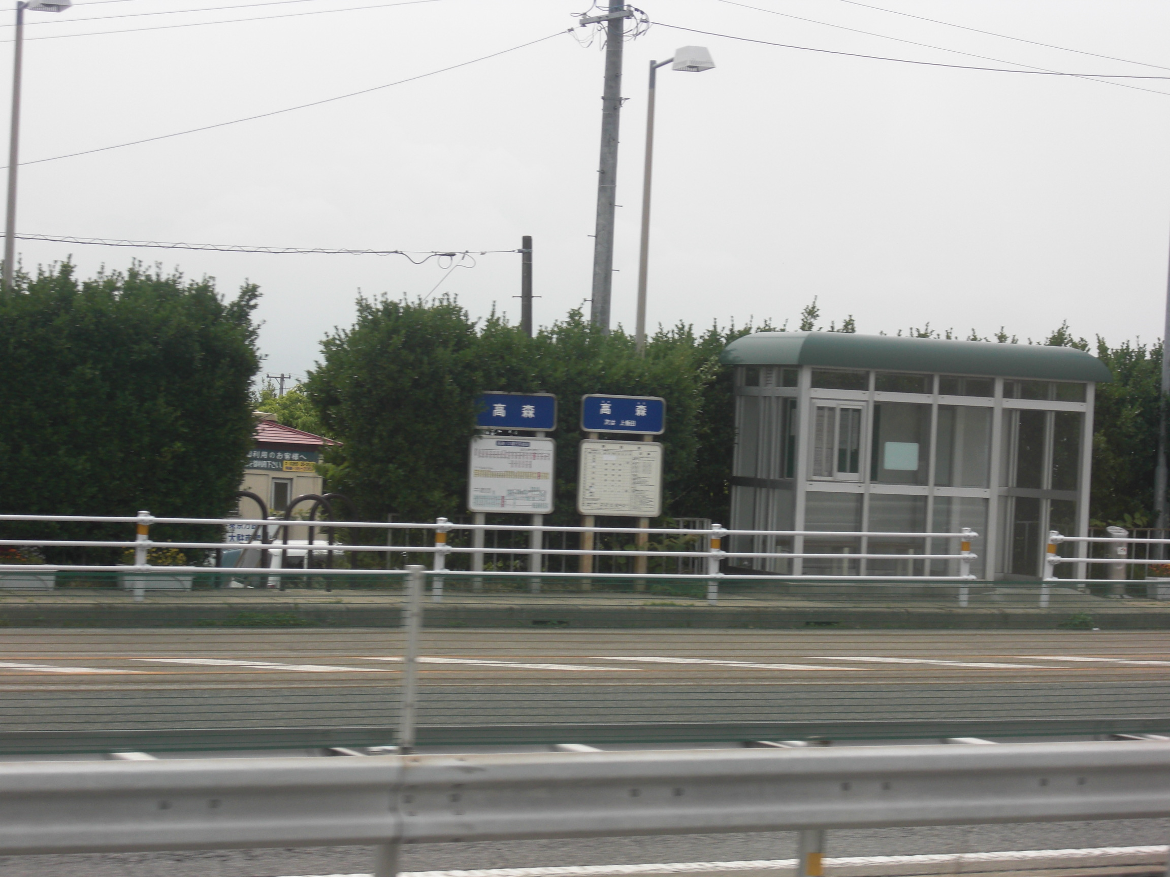 This is the Takamori Bus Stop on the down line of Chuo Expressway.